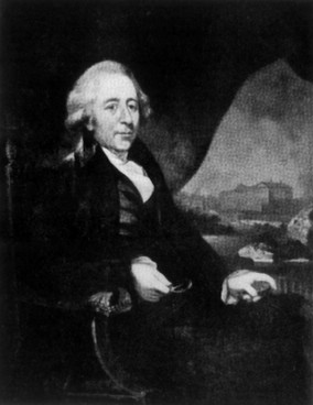 (PD by age)